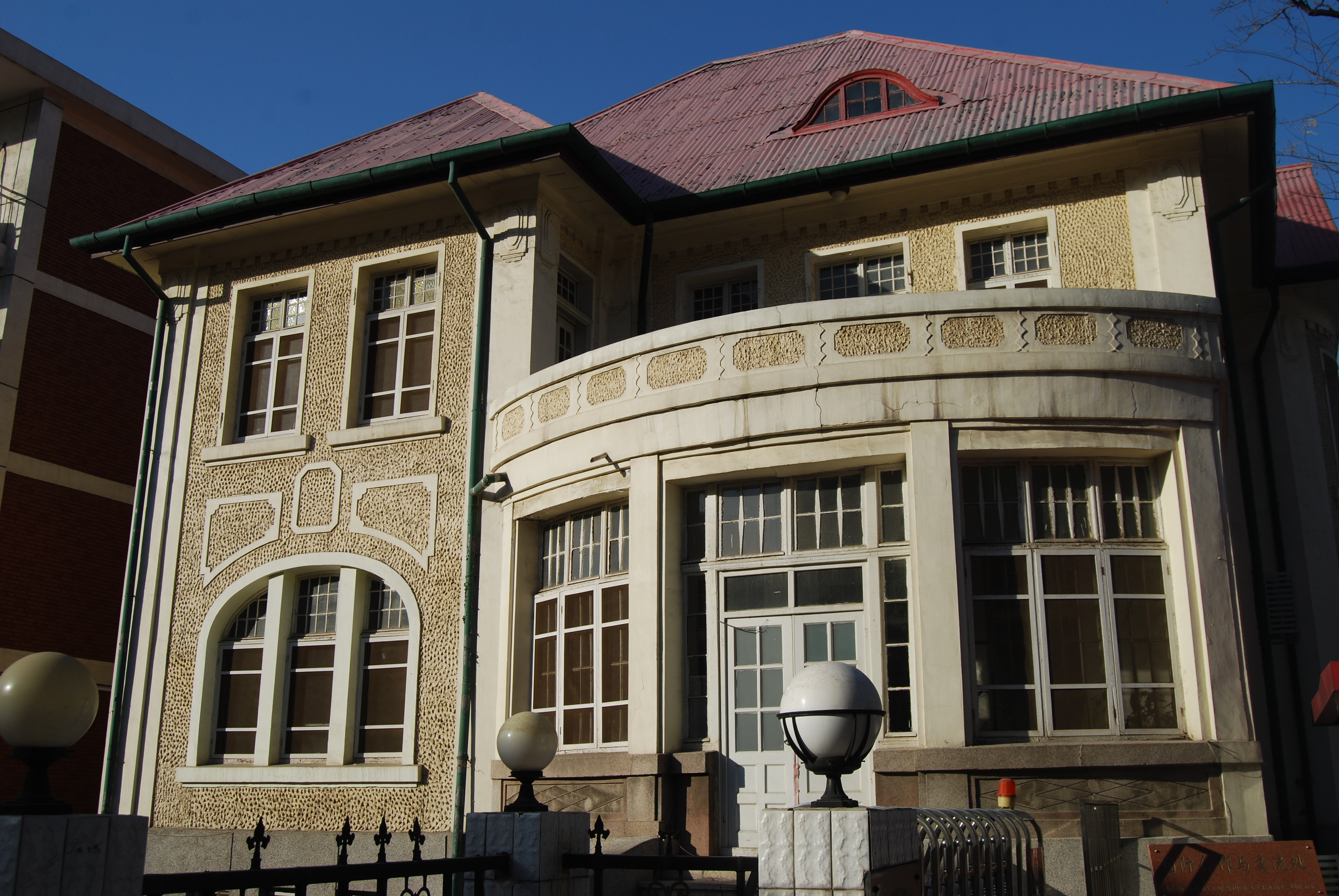 Former residence og Emile Licent SJ (1876–1952) in Machang Dao No. 121, Hexi District, Tianjin